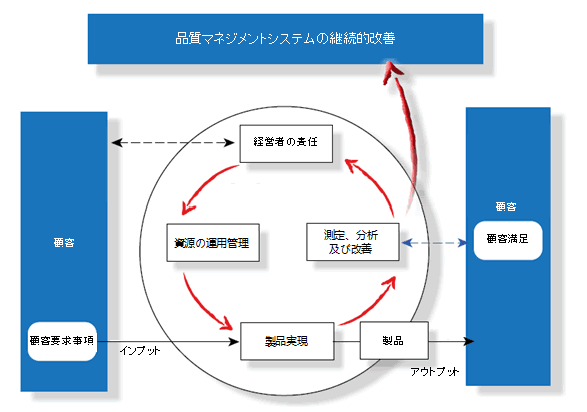 Own work on the basis of File:Processnyj-podhod-soglasno-ISO-9000.png (author:Андрей Гарин)